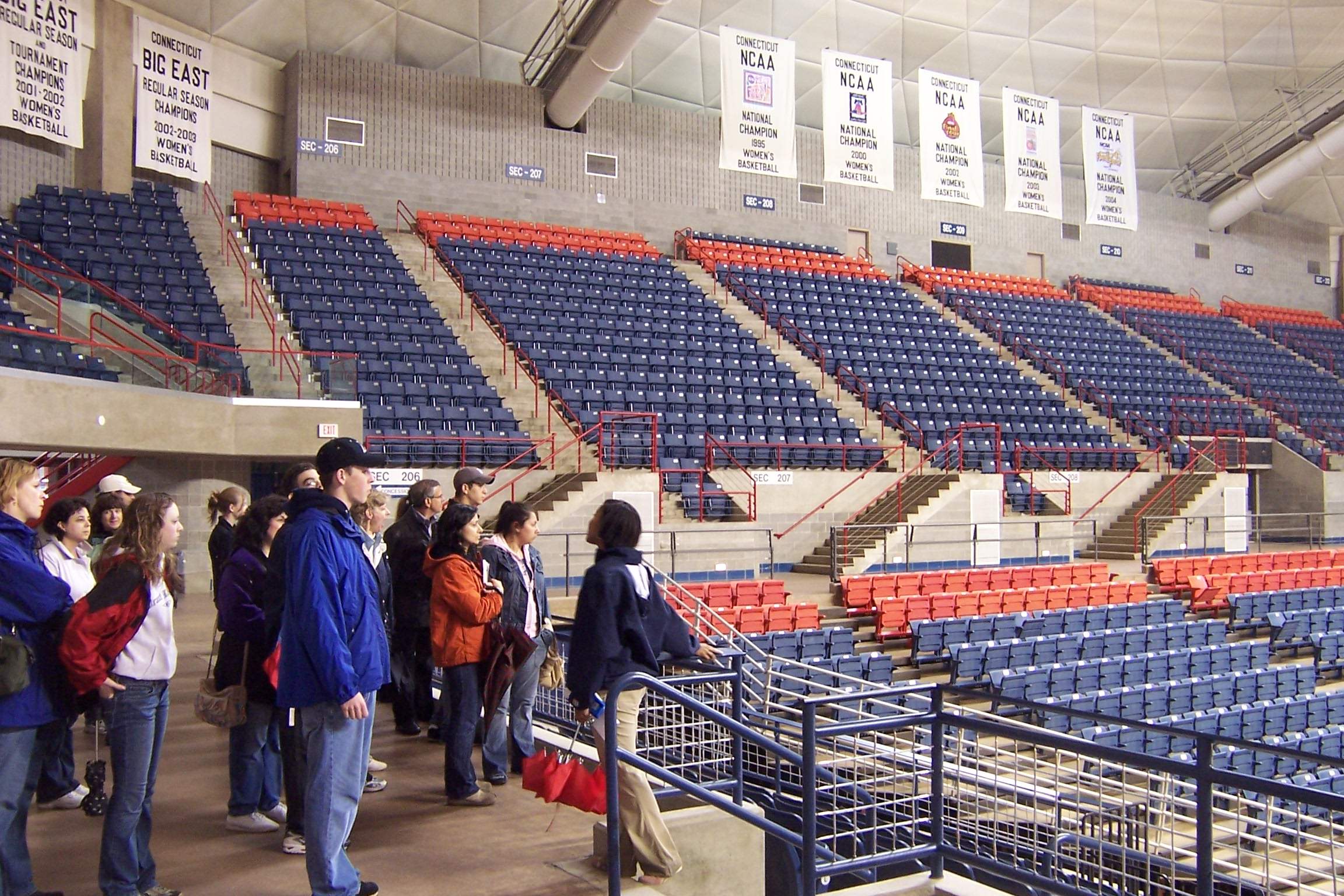 University of Connecticut, Gampel Pavilion. Taken by me (JlsElsewhere), 27 Apr 2005.